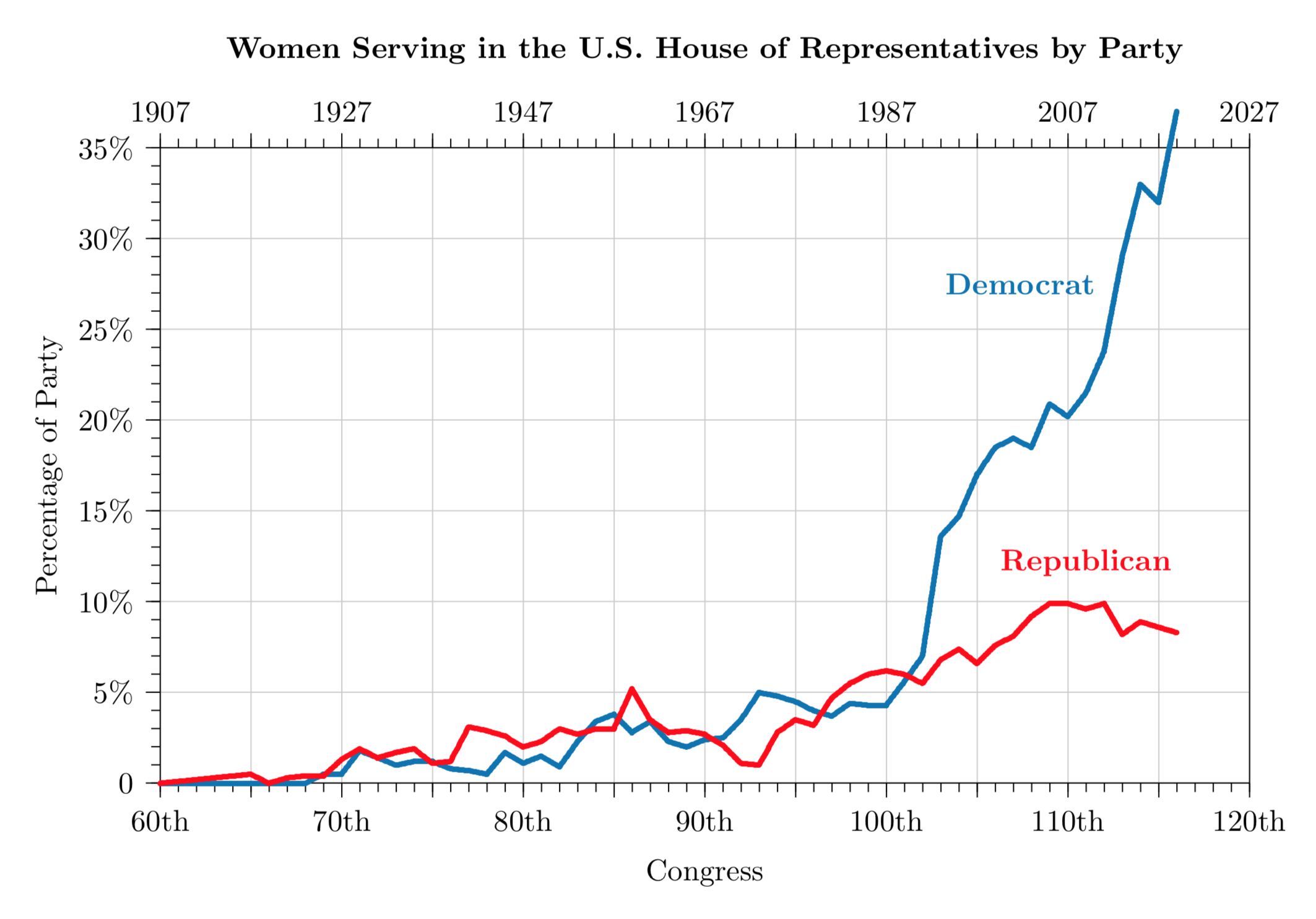 Showing the tabular data from Wikipedia in graphical form